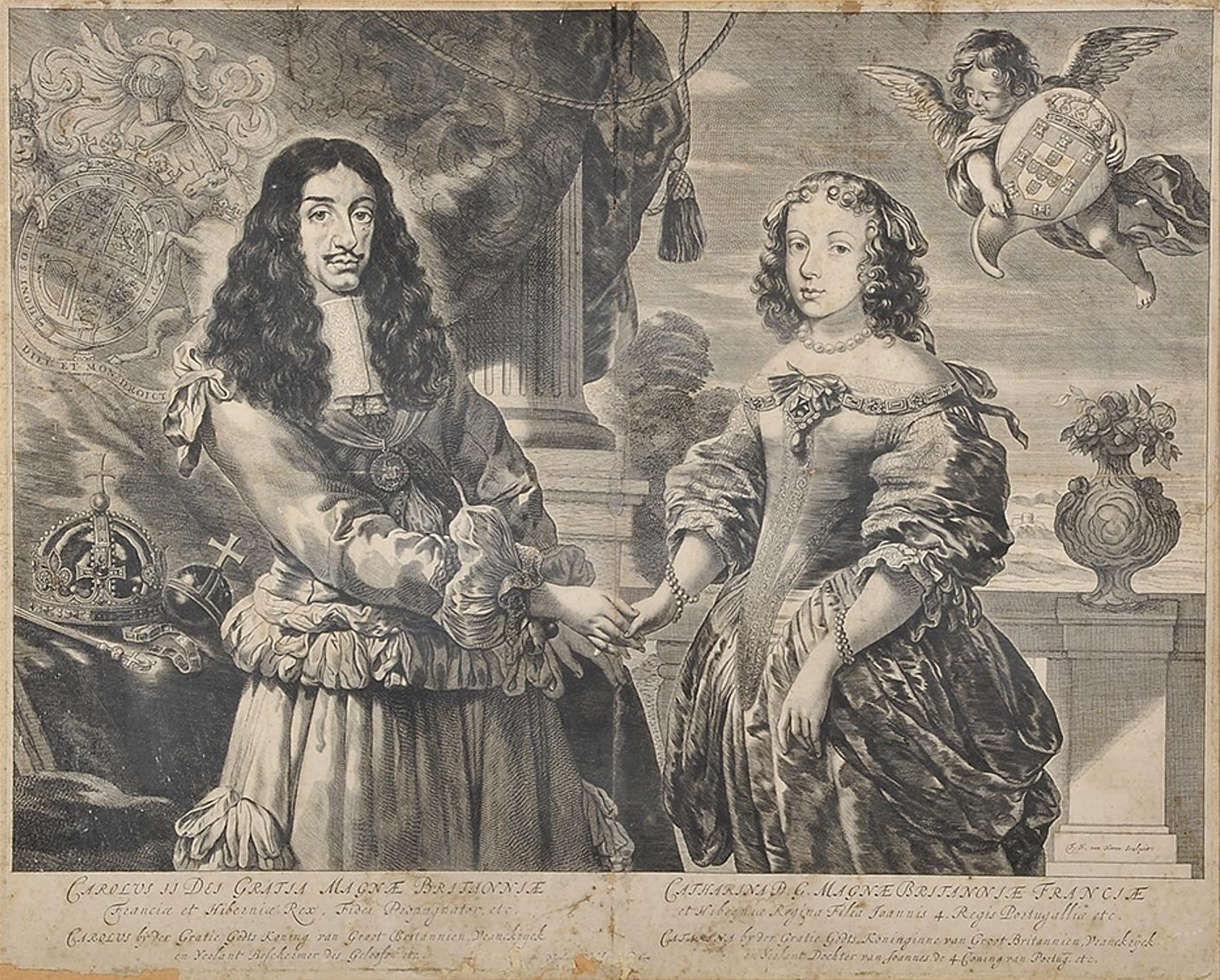 Charles II of England and Queen Catherine of Braganza (Dutch engraving, 3rd quarter of the 17th century).